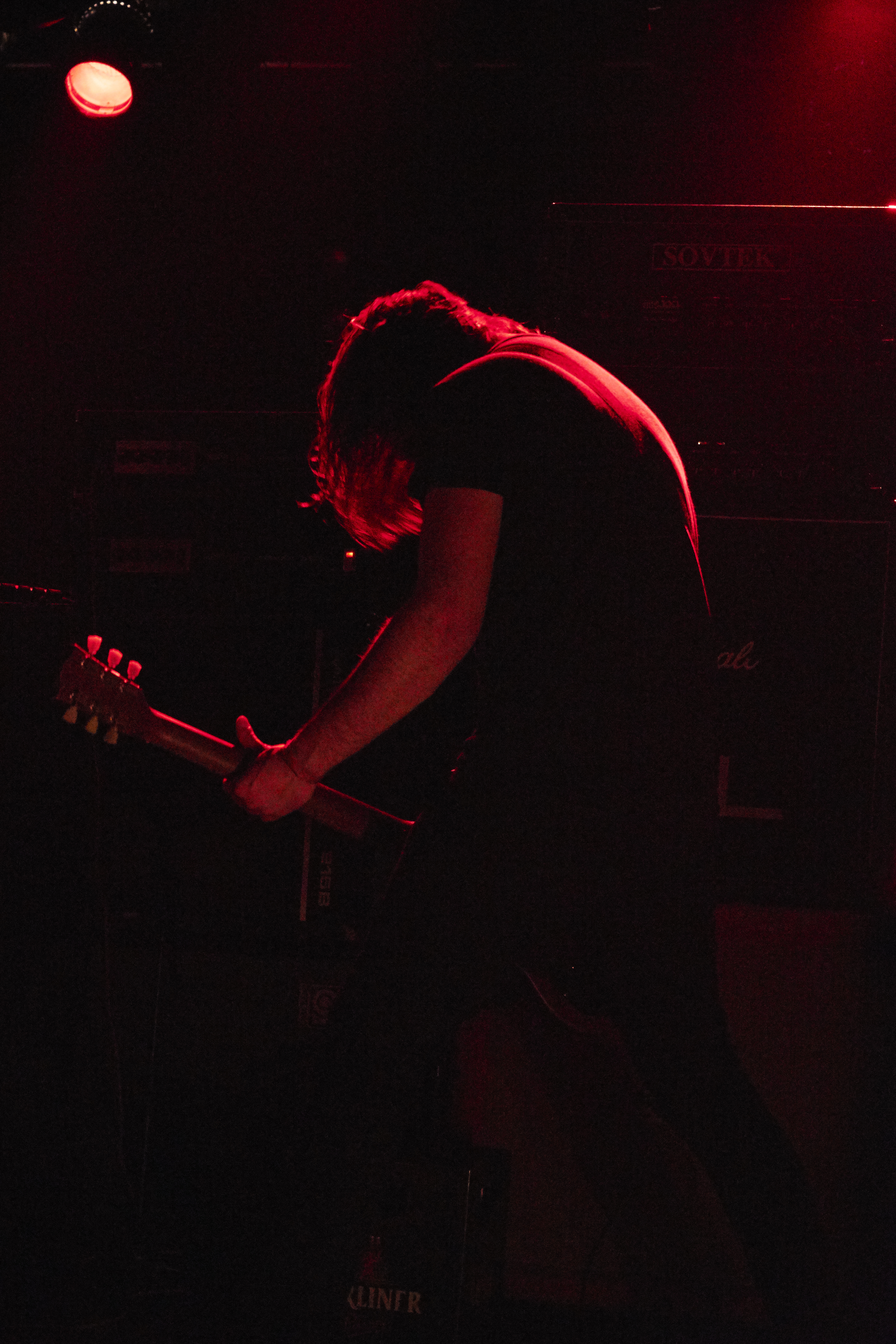 Monarch! at Droneberg Doom Festival, Berlin-Kreuzberg SO36, 16.04.2015 Festivalsommer This photo was created with the support of donations to Wikimedia Deutschland in the context of the CPB project "Festival Summer". Personality rights warning Although this work is freely licensed or in the public domain, the person(s) shown may have rights that legally restrict certain re-uses unless those depicted consent to such uses. In these cases, a model release or other evidence of consent could protect you from infringement claims.